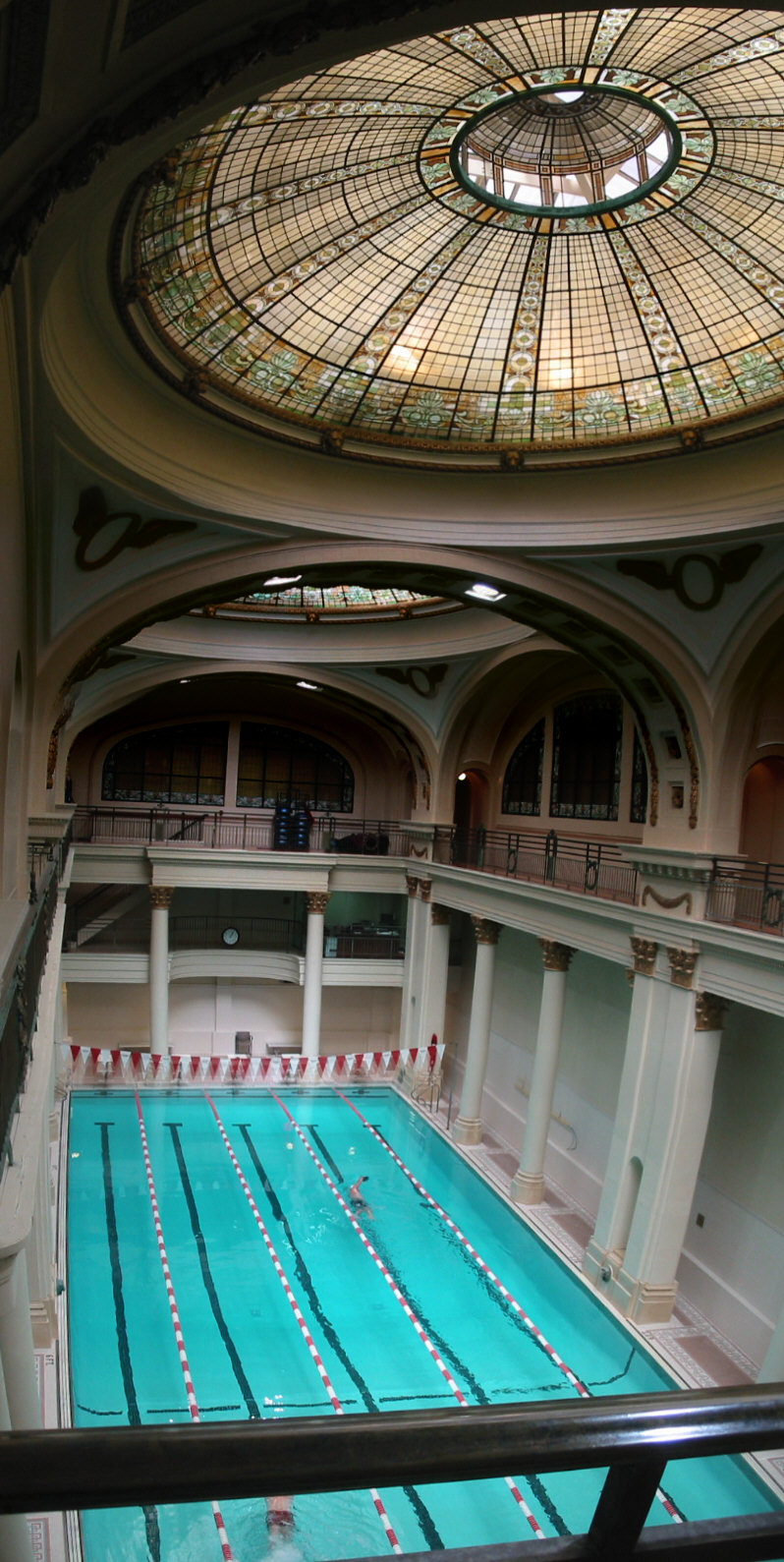 Swimming pool inside the Olympic Club in San Francisco. Architect: Douglas Dacre Stone, ca. 1936